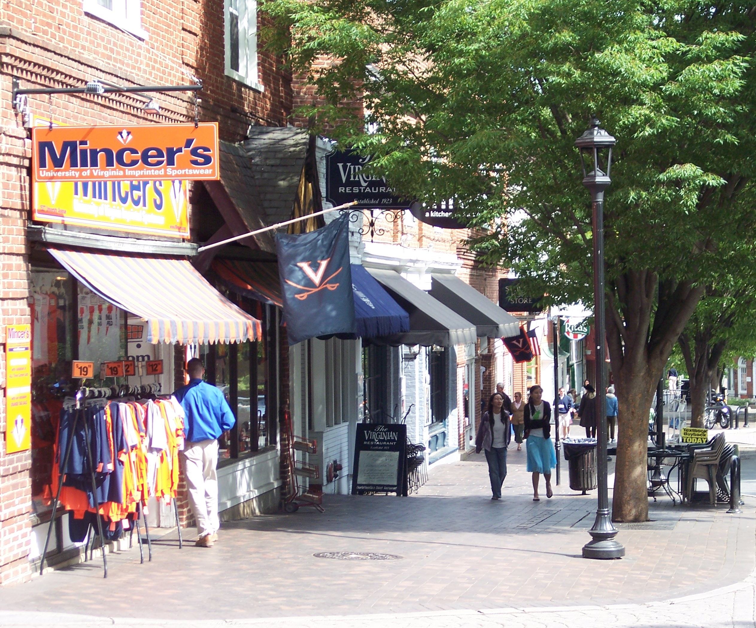 The Corner at the University of Virginia in Charlottesville; part of the Rugby Road-University Corner Historic District.